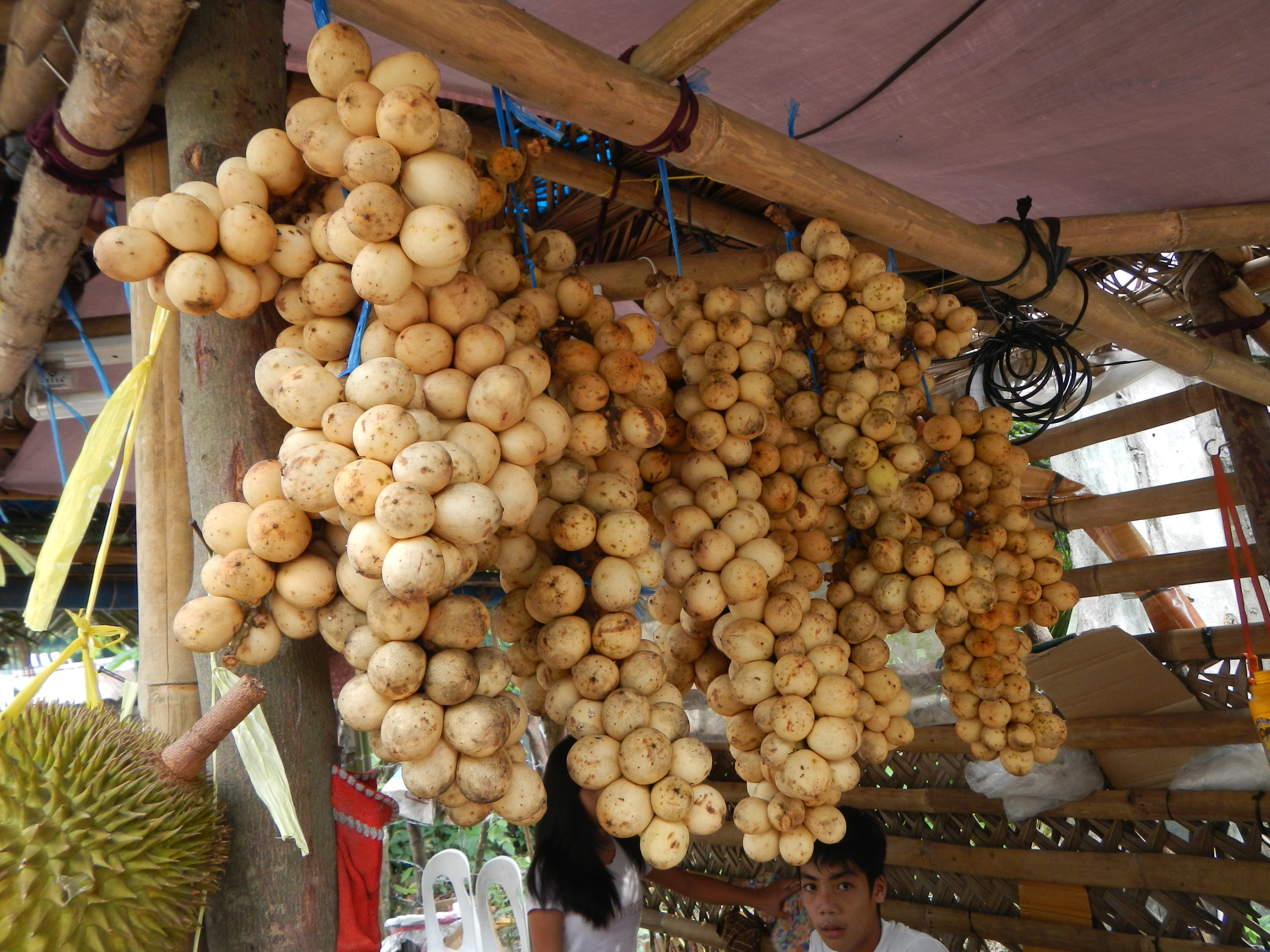 UploadWizard photos -- (General description, 3-dimension angle by angle photography of this town, church & landmarks) --Centro, downtown, town centre of Dupax del Norte, Nueva Vizcaya[1] - Scenery and landmarks, Dupax del Norte Central School in front of the Church -- the -Saint Anne Parish Church of Dupax del Norte, Nueva Vizcaya[2] 3706 Malasin, [3] Coordinates: 16°18'23"N 121°6'22"E - the Lamo Bridge, Cagayan Valley River, & Paete, Laguna[4] (s a fourth class municipality in the province of Laguna, [5])Philippines; the latest census, a population of 23,523- Wood_carving [6] industry) Entrance Monument, Welcome Sign and Statue at Barangay 4 - Quinale; proclaimed "the Carving Capital of the Philippines" on March 15, 2005 by Philippine President Arroyo; politically subdivided into 9 barangays[7] situated in Laguna, Region 4, Philippines, its geographical coordinates are 14° 21' 46" North, 121° 29' 1" East , Fruitstands of Rambutan[8], Santol[9], Sandoricum koetjape, Pomelo or suha[10]Citrus maxima, Lansium domesticum[11], Durian [12], Marang [13] (Artocarpus odoratissimus).